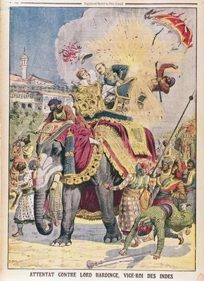 An assassination attempt on Lord Charles Hardinge (1858-1944) Viceroy of India, illustration from 'Le Petit Journal', 12th January 1913 (colour litho) Image ID: CHT 176677 An assassination attempt on Lord Charles Hardinge (1858-1944) Viceroy of India, illustration from 'Le Petit Journal', 12th January 1913 (colour litho) Credit: An assassination attempt on Lord Charles Hardinge (1858-1944) Viceroy of India, illustration from 'Le Petit Journal', 12th January 1913 (colour litho), French School, (20th century) / Bibliotheque Nationale, Paris, France / Archives Charmet / The Bridgeman Art Library CHT 176677 Image number: An assassination attempt on Lord Charles Hardinge (1858-1944) Viceroy of India, illustration from 'Le Petit Journal', 12th January 1913 (colour litho) Title: French School, (20th century) Primary creator: French Nationality: Bibliotheque Nationale, Paris, France Location: Archives Charmet Credit: colour lithograph Medium: attentat a l'explosif contre le Vice-Roi des Indes; a bomb was thrown from a window in Delhi during a state entry on the first anniversary of the imperial durbar; Description: 1913 (C20th) Date: Royalty and Statesmen of Britain Categories: Vertical